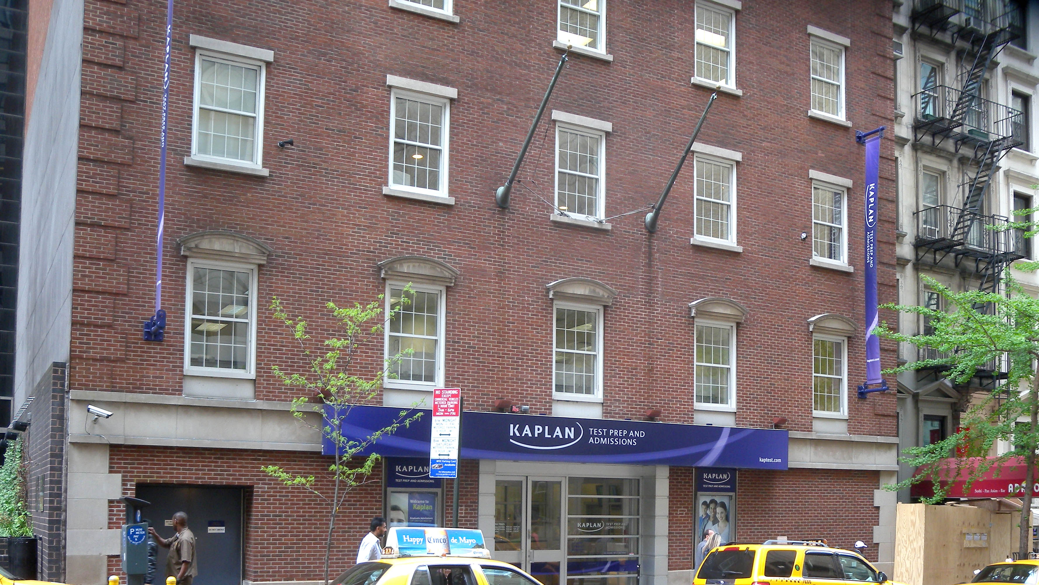 Looking northeast across W56th at Kaplan school.